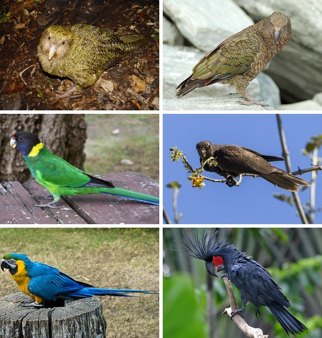 A montage showing the six families of parrots (order Psittaciformes; Strigopidae, Nestoridae, Psittaculidae, Psittrichasiidae, Psittacidae and Cacatuidae. These are represented by a kakapo (Strigops habroptilus), kea (Nestor notabilis), Australian ringneck (Barnardius zonarius), lesser vasa parrot (Coracopsis nigra), blue-and-yellow macaw (Ara ararauna), and palm cockatoo (Probosciger aterrimus).